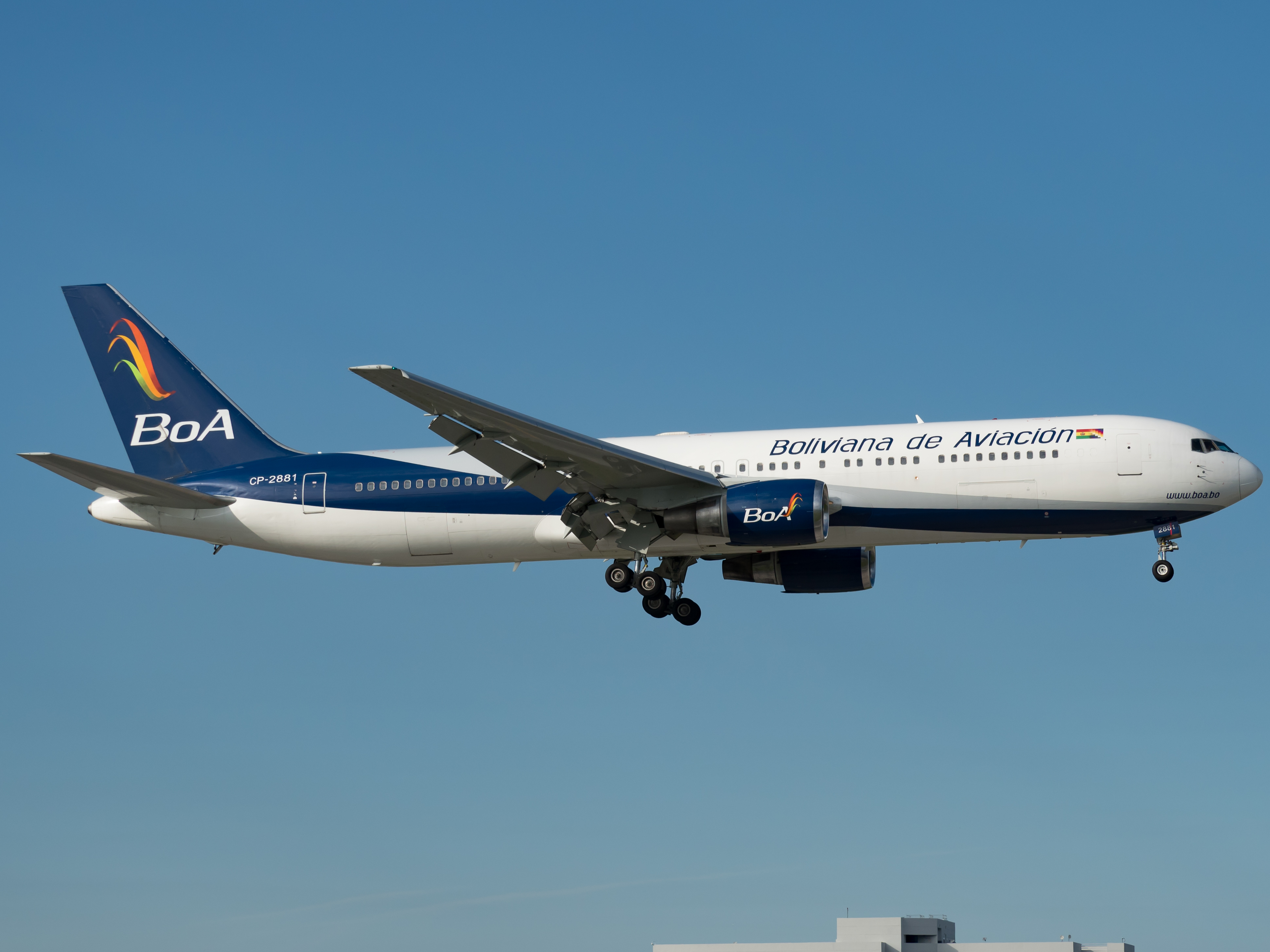 Boliviana de Aviación Boeing 767 at Miami International Airport